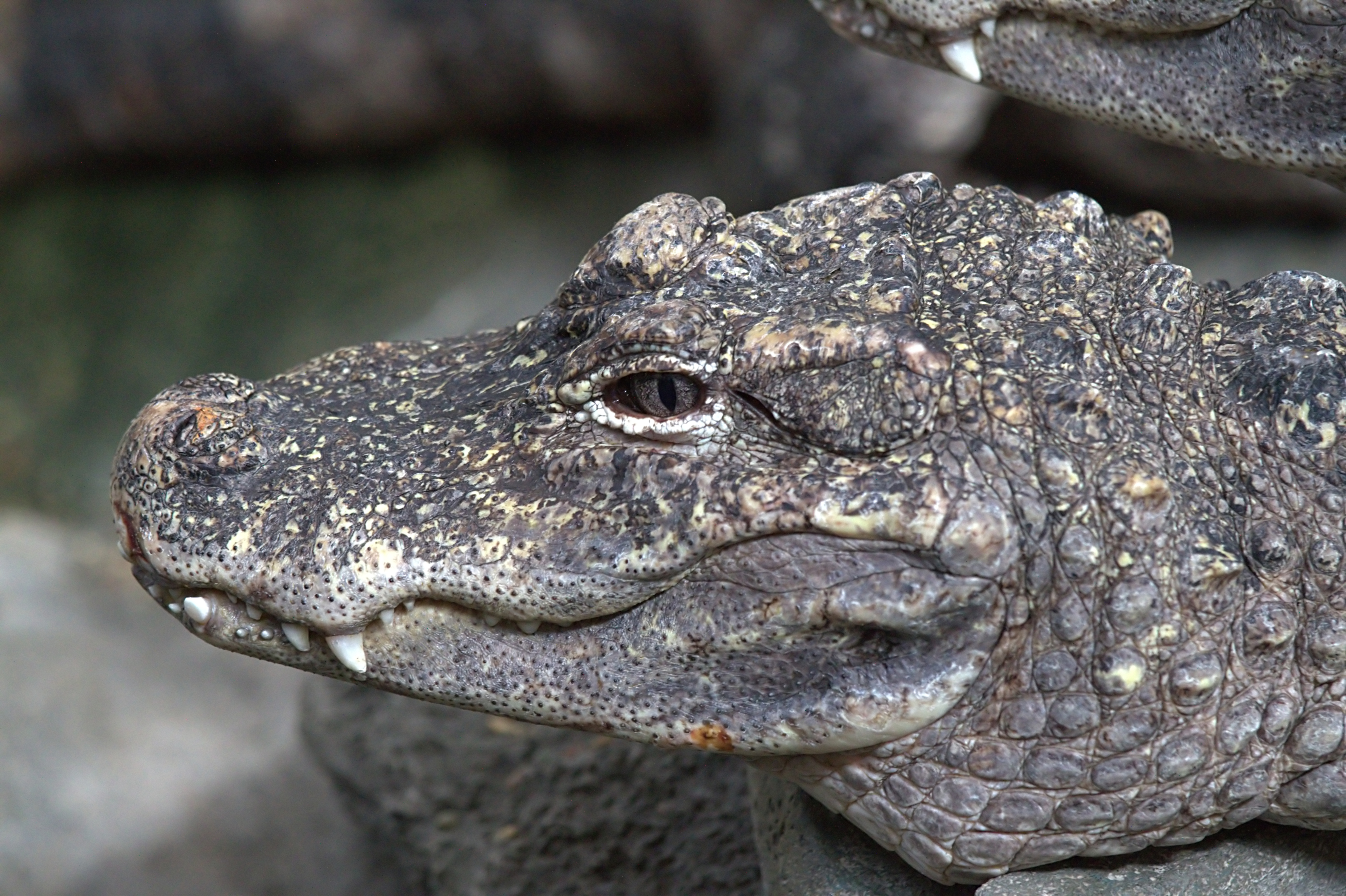 Chinese Alligator at the Cincinnati Zoo.